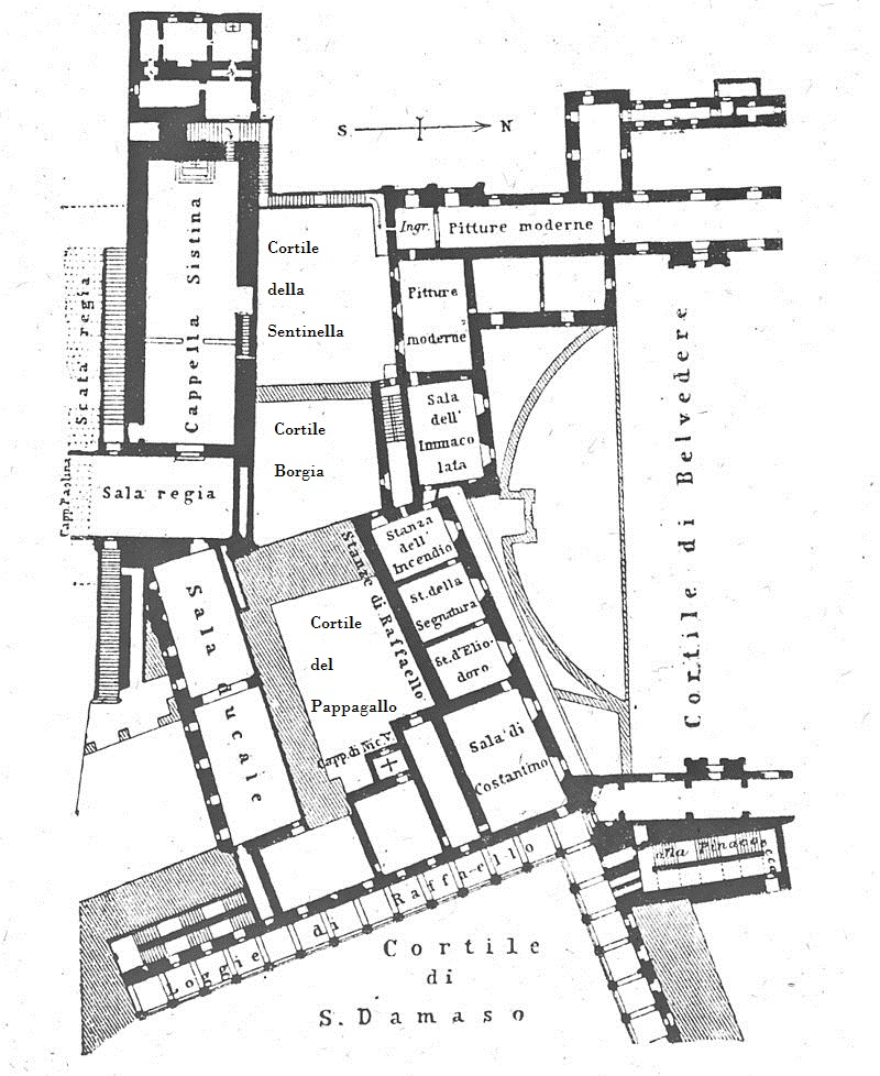 Palazzo apostolico plant